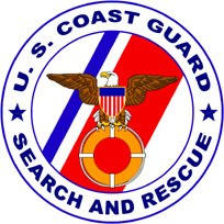 Search and Rescue Program Logo of the United States Coast Guard.